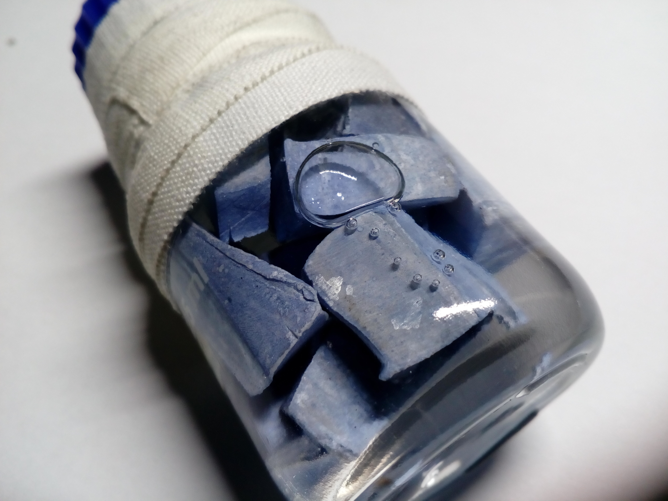 Slightly oxdized potassium in mineral oil, showing its bluish-purple color.